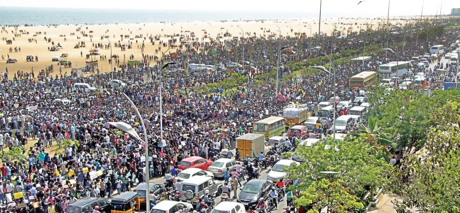 jallikattu supporters at Marina